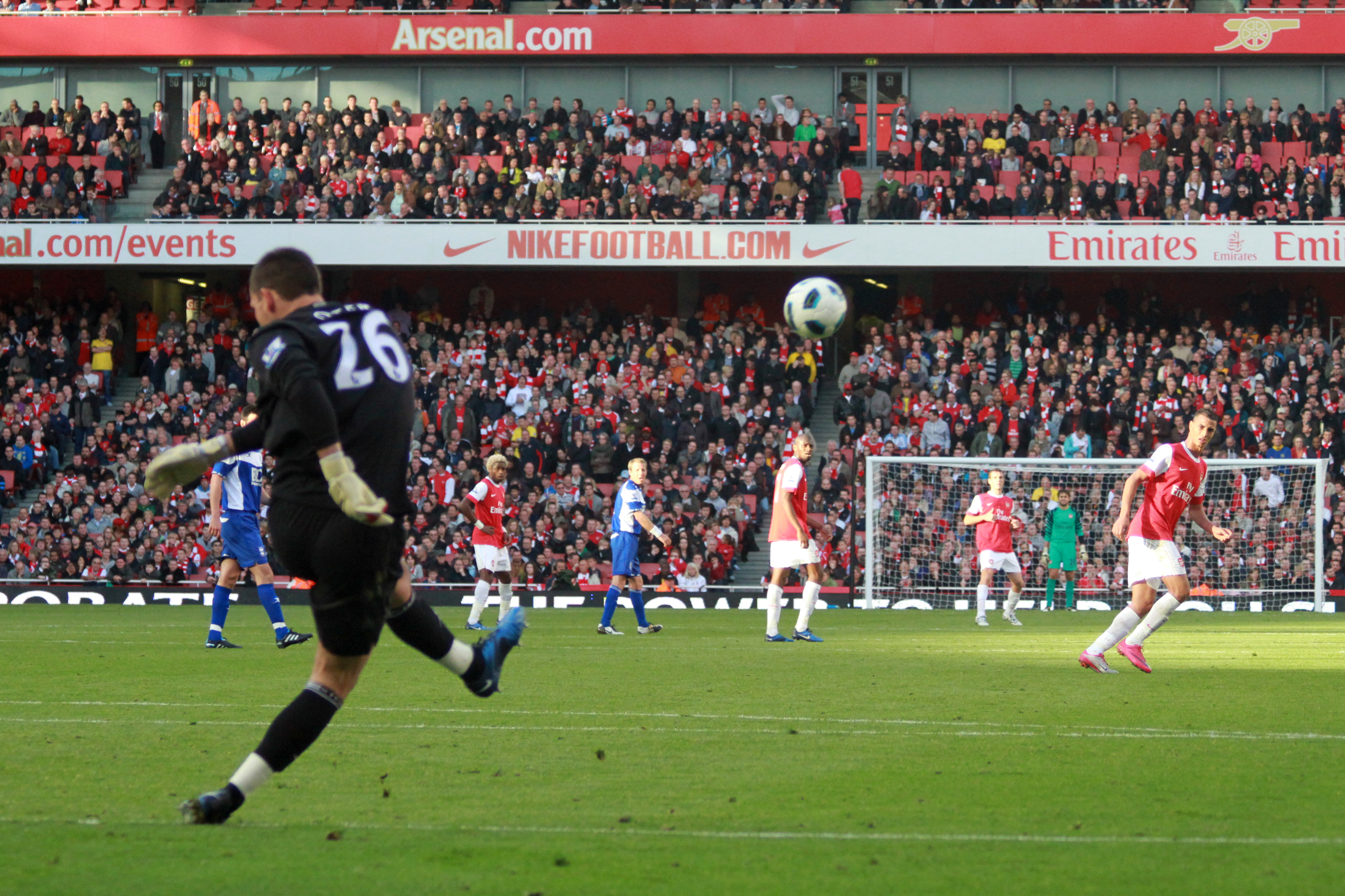 Arsenal v Birmingham City The Emirates 16 October 2010 (2-1)